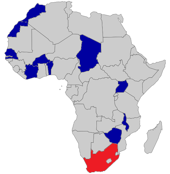 Operators of the Eland Mk7 armoured car.